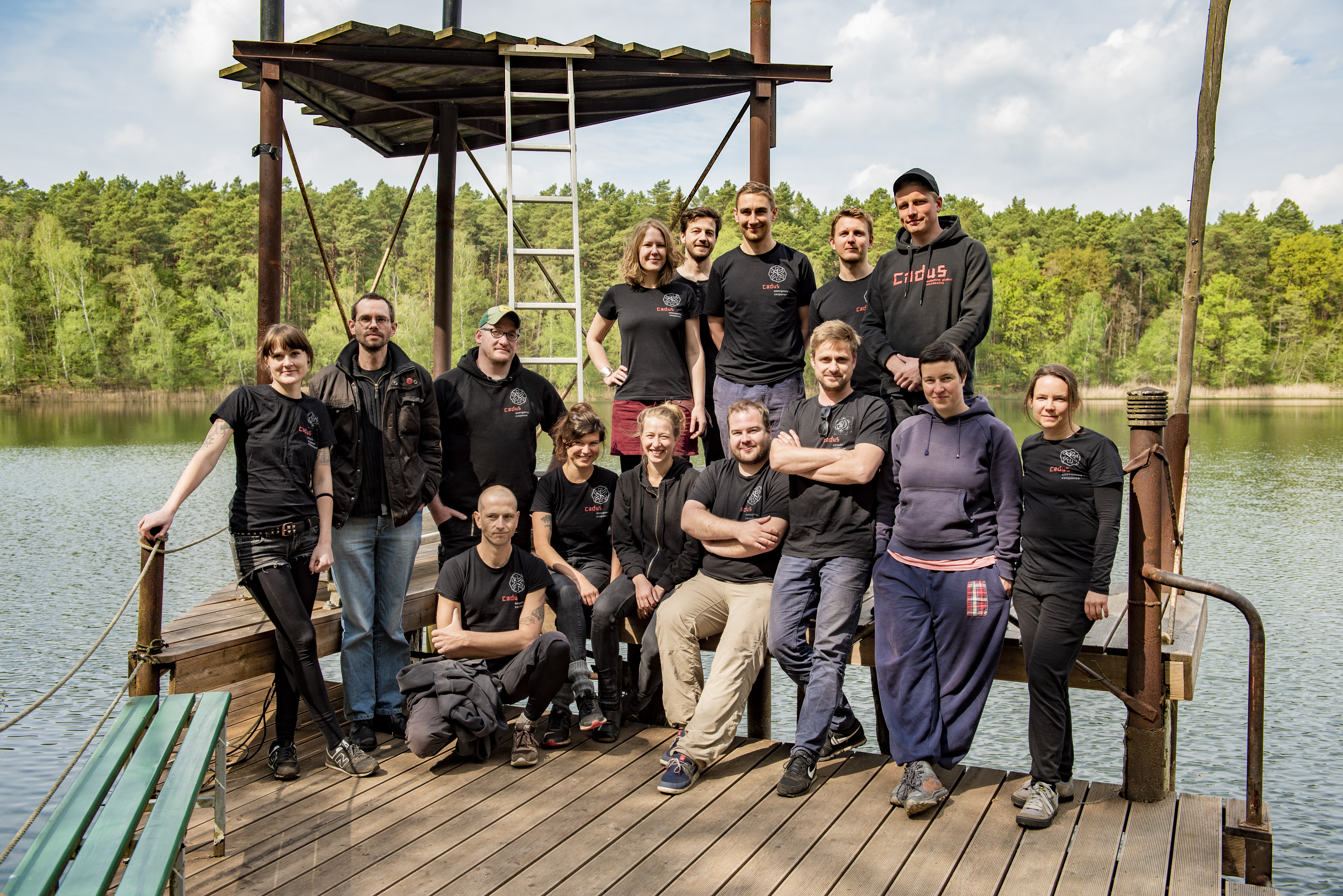 Group picture of the main members of CADUS - Redefine Global Solidarity (NGO)